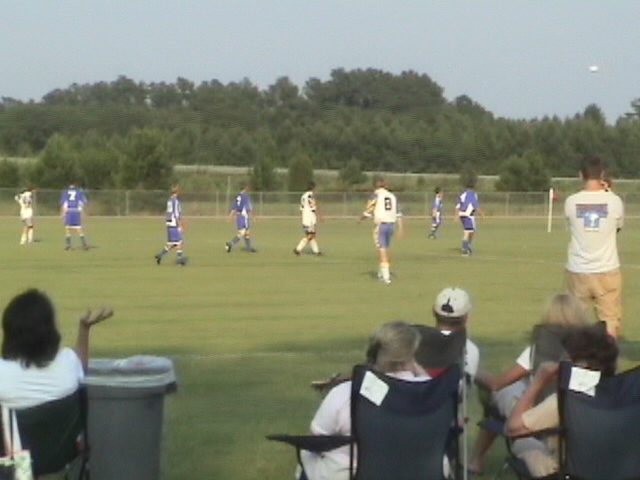 Home varsity soccer game at Florence Christian School, Florence, South Carolina